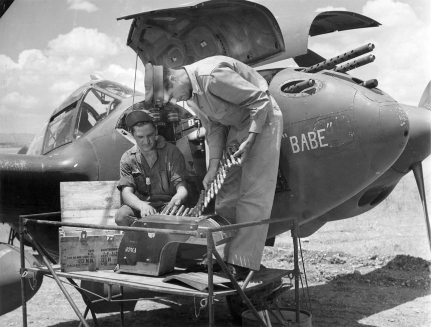 1st Lt H. A. Blood examines ammunition for the single 20 mm M2 in the nose of a Lockheed P-38 Lightning.